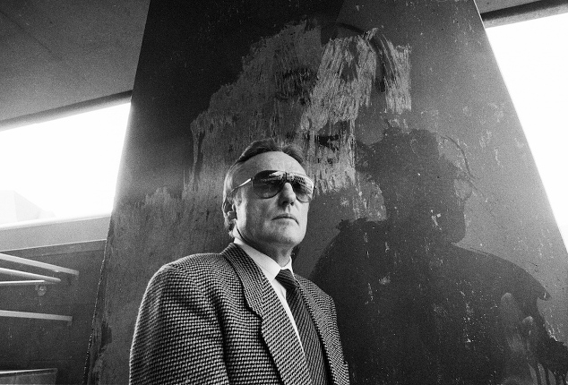 Dennis Hopper photographed by Hartmut S. Bühler in front of the Kunsthalle Düsseldorf in 1988.